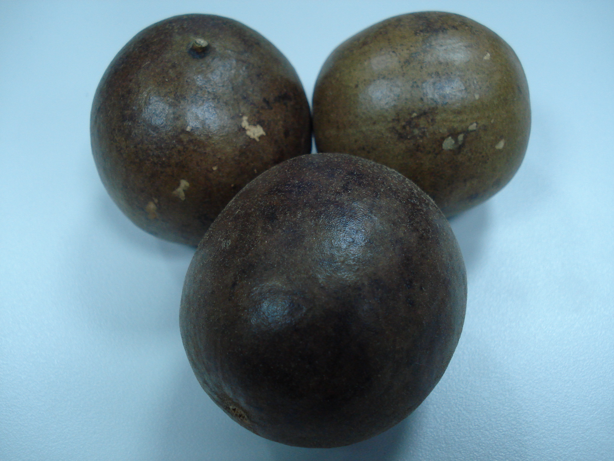 Fructus Momordicae, a kind of Chinese herb for sore throat and hoarseness. 羅漢果，用於咽喉痛、音啞。